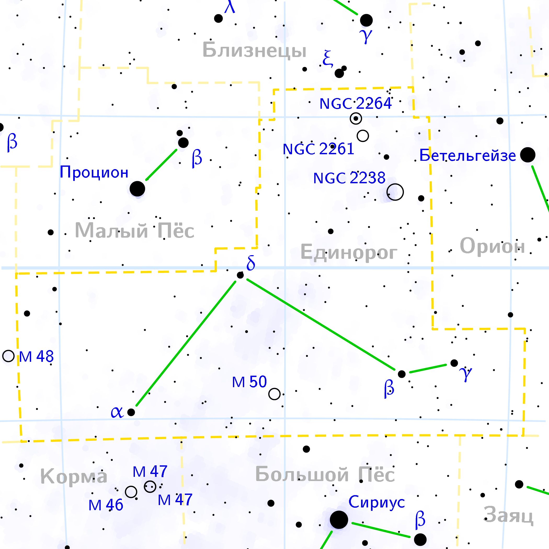 Monoceros constellation map on Russian